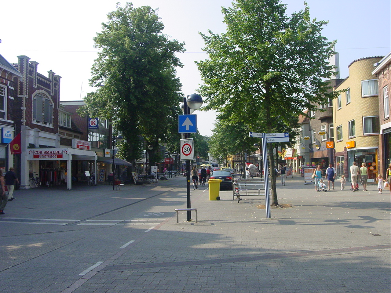 Shopping centre of Emmen